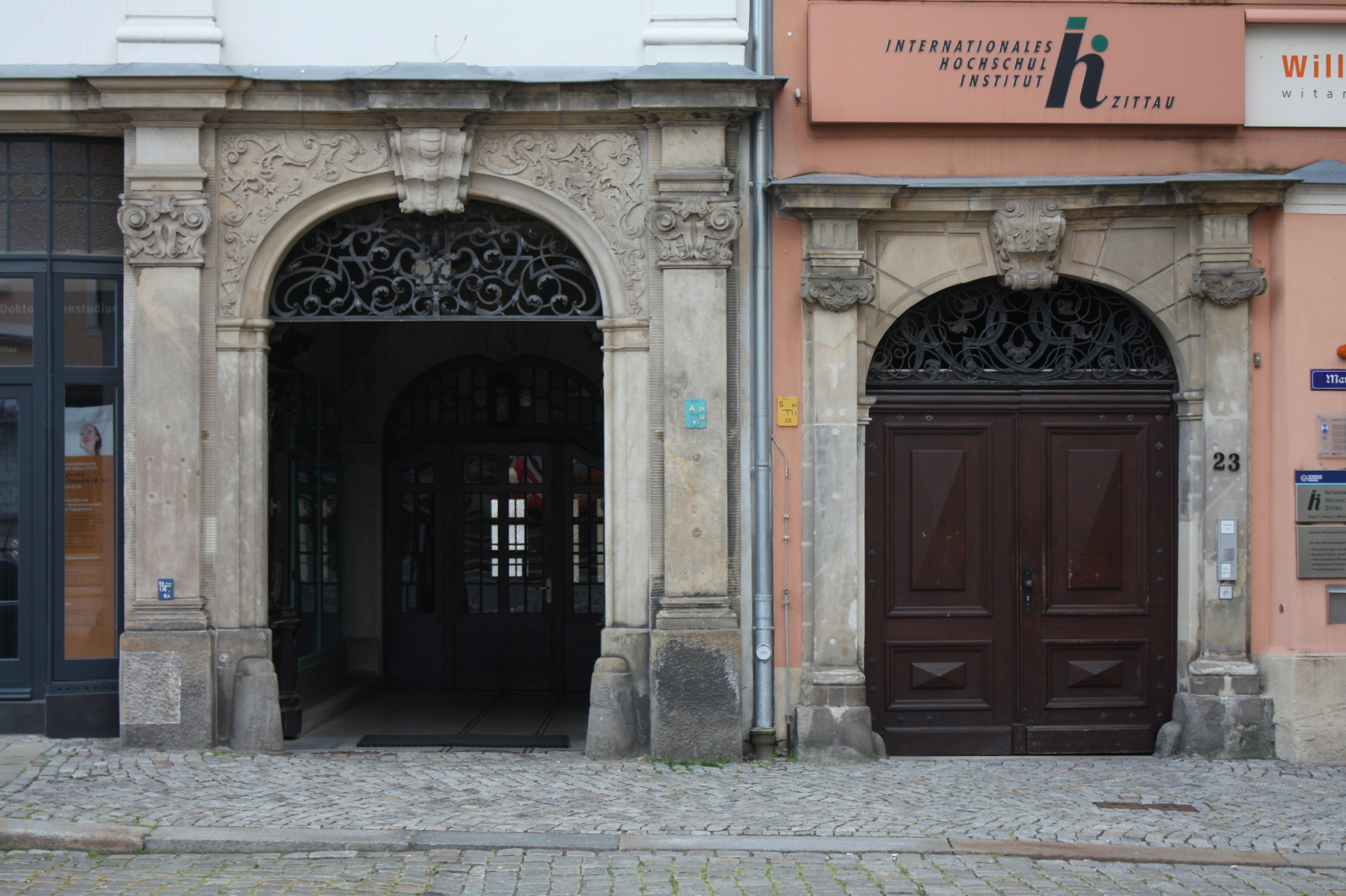 Zittau